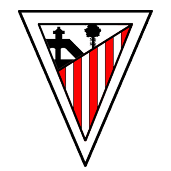 Athletic Club crest adopted in 1922. Digitally enhanced and with alpha channel.